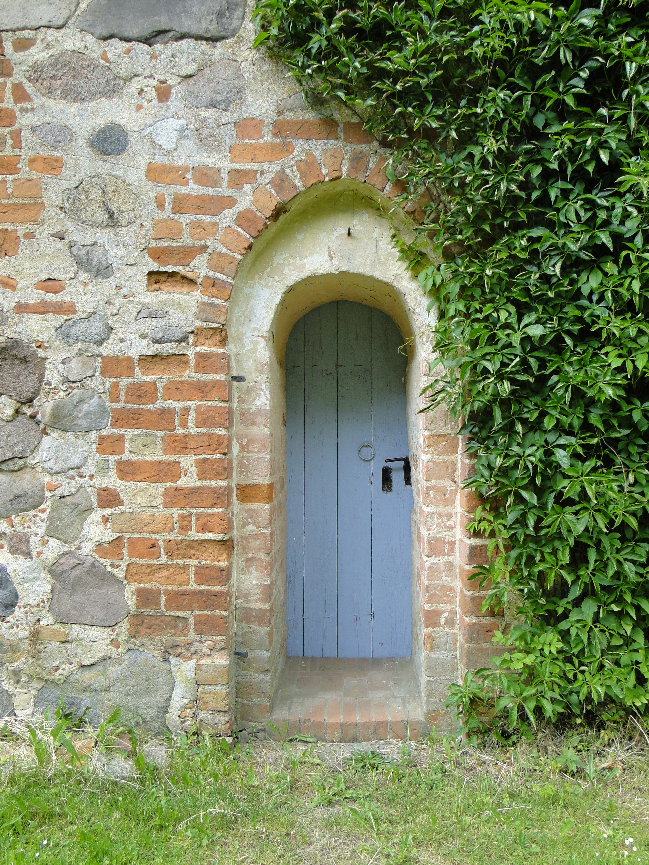 Church in Groß Niendorf, district Ludwigslust-Parchim, Mecklenburg-Vorpommern, Germany